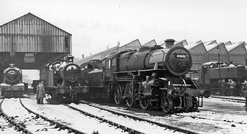 Locomotives outside Swindon Works in the snow - in November. View SW of the locomotive sidings outside the main workshops. A London Midland 2-6-0 (Ivatt 4MT 2-6-0 No. 43001) is a stranger among various ex-Great Western engines. The occasion was an organised visit.